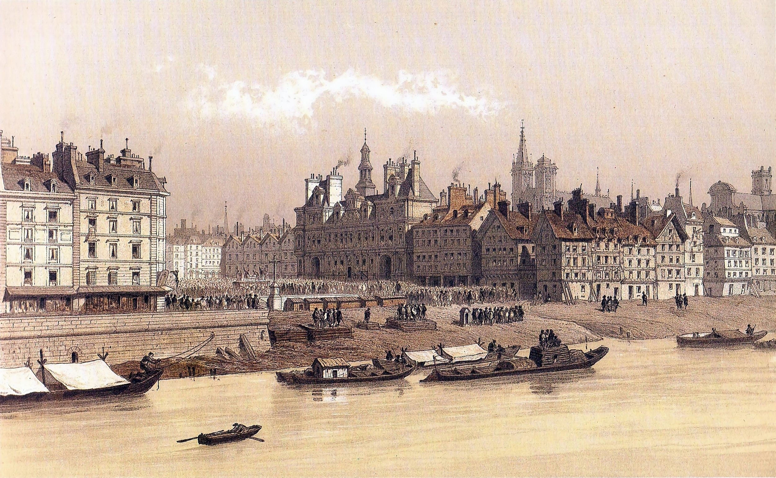 Engraving by Theodor Josef Hubert Hoffbauer (1839-1922), showing the Hôtel de Ville de Paris in 1740